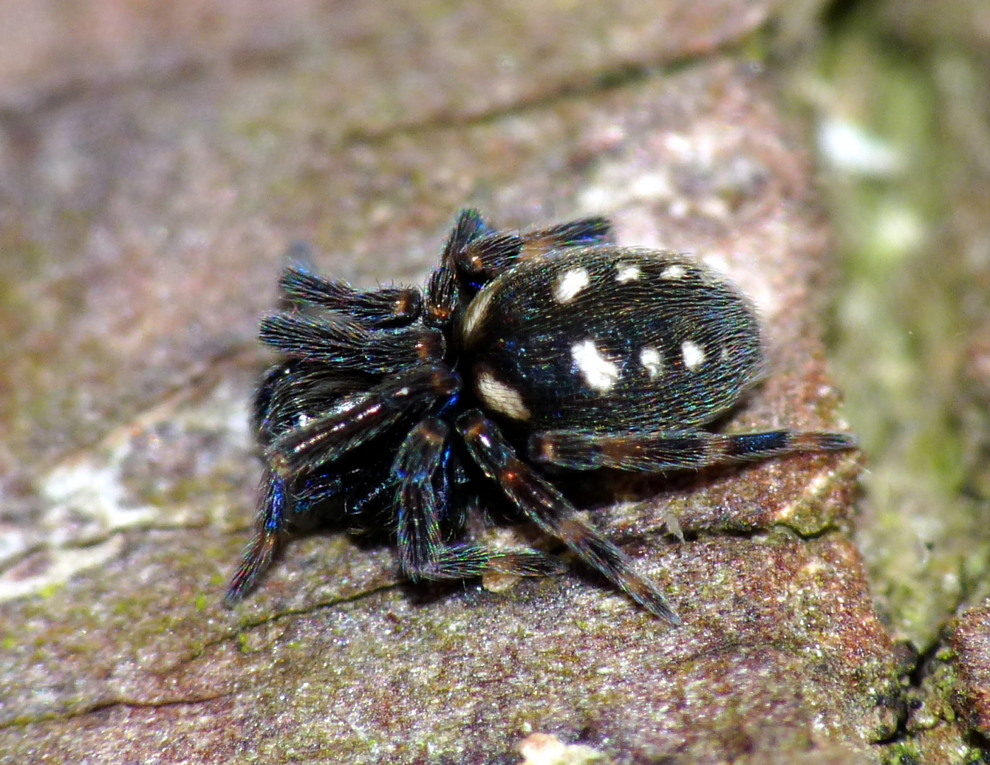 Nurscia albomaculata, Livorno, Italu